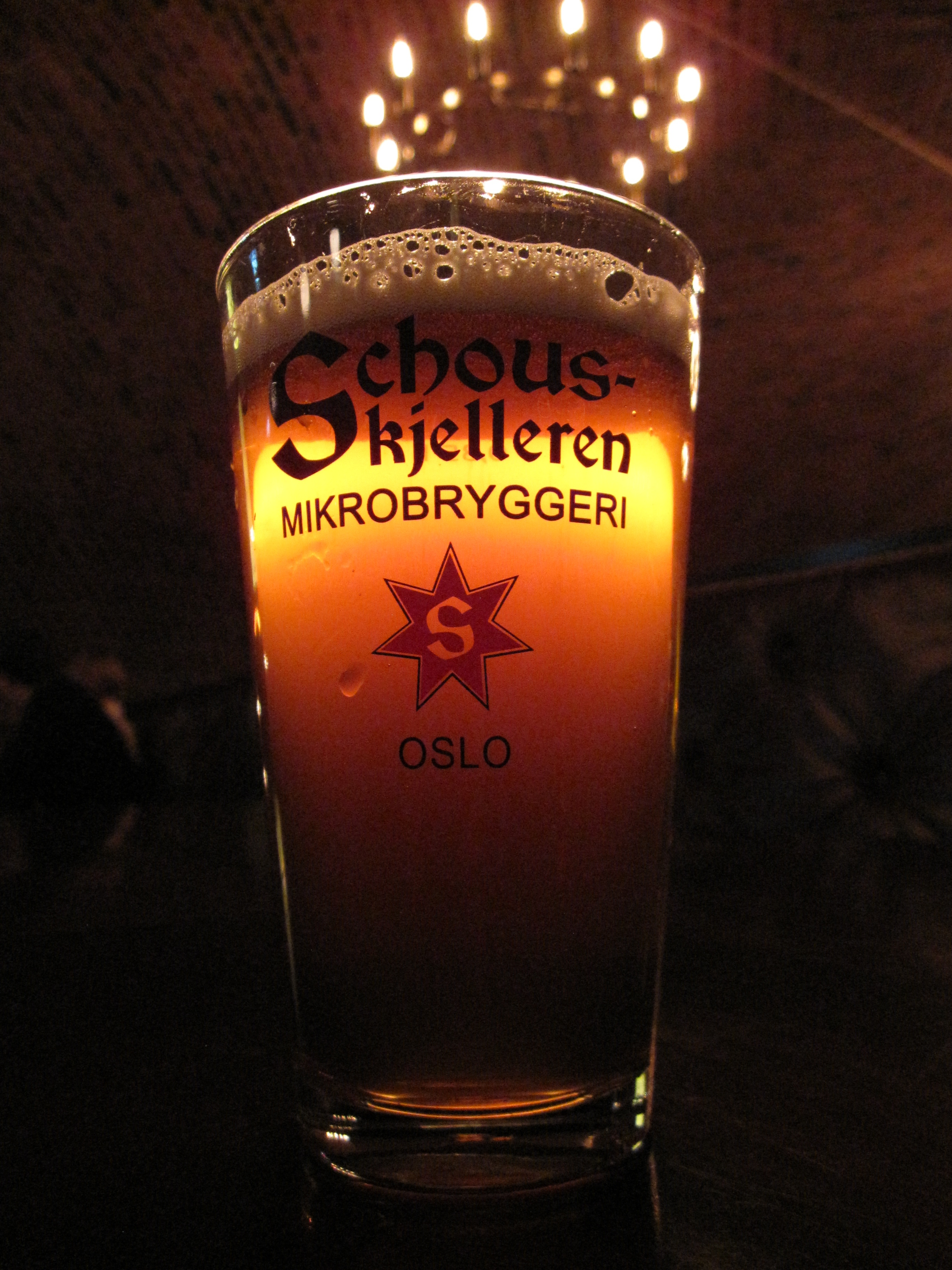 "Garden of Eden" beer, brewed by Schouskjelleren microbrewery in Oslo, Norway